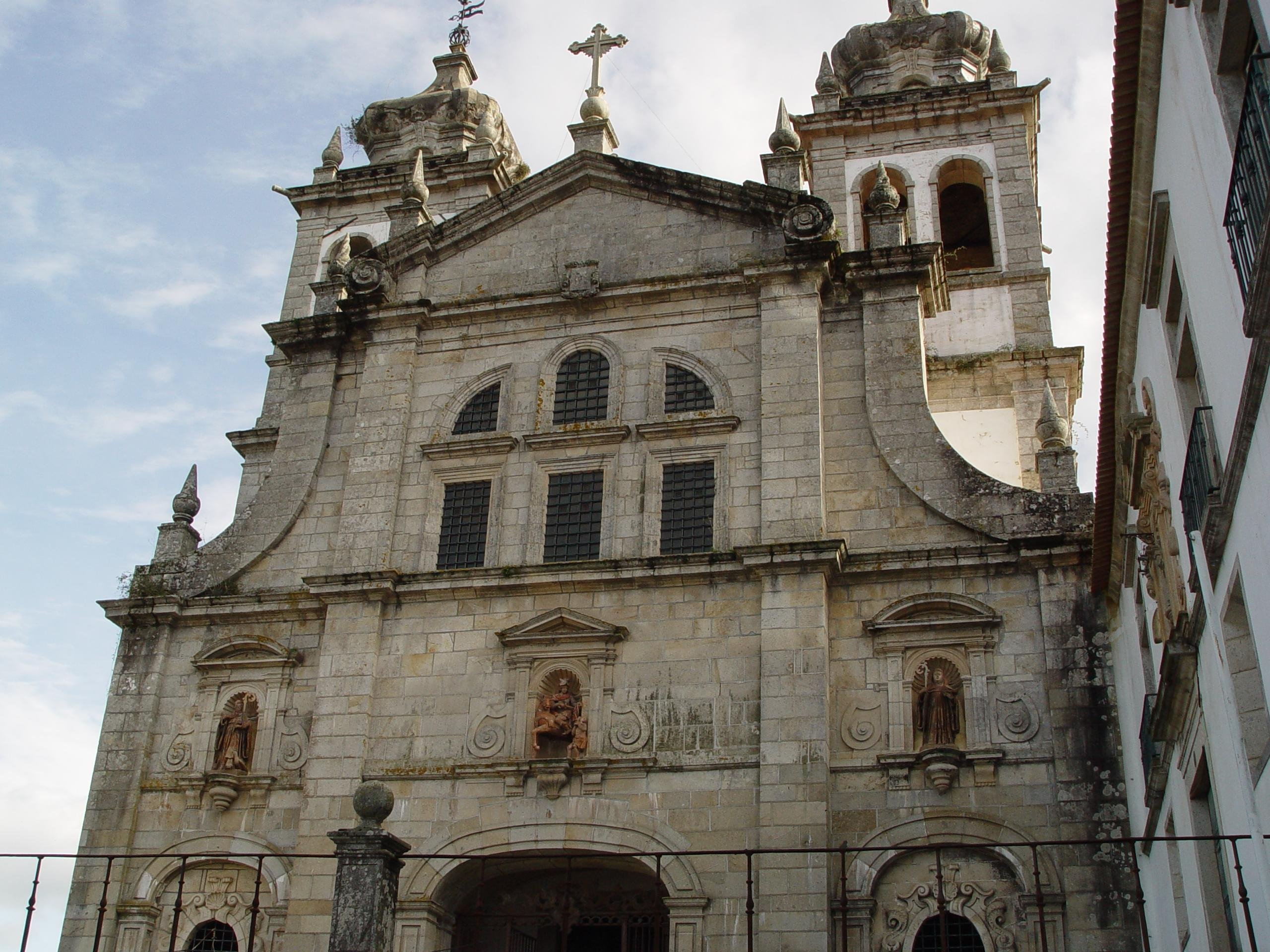 Facade of Tibães Church, in Braga, Portugal